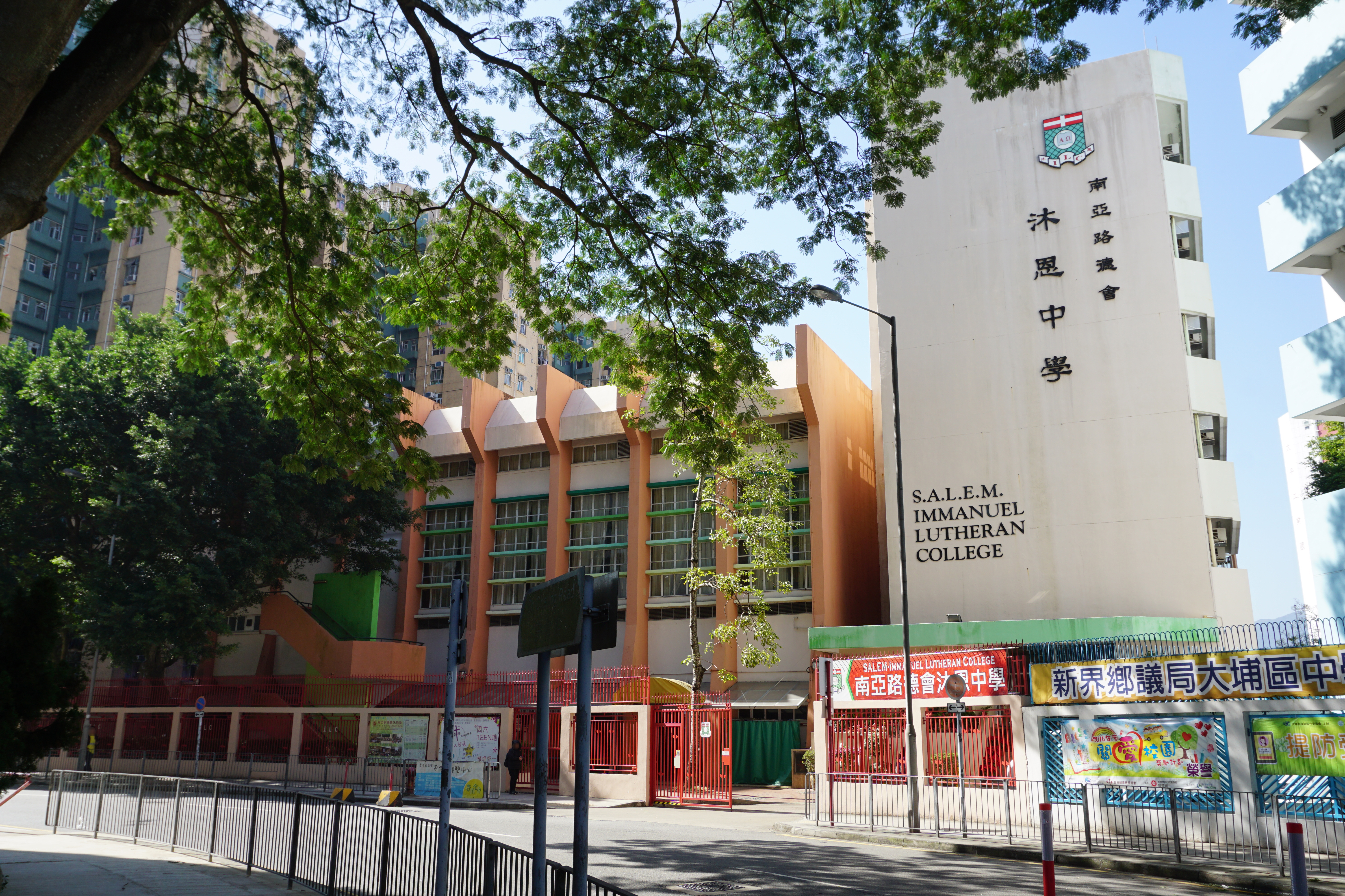 SALEM-Immanuel Lutheran College in Tai Po, Hong Kong.